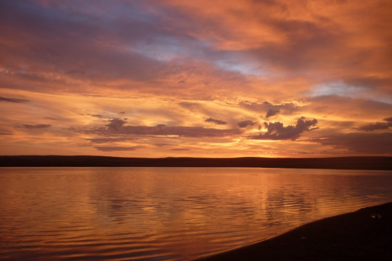 Russia, Tyva, Dus-Khol lake